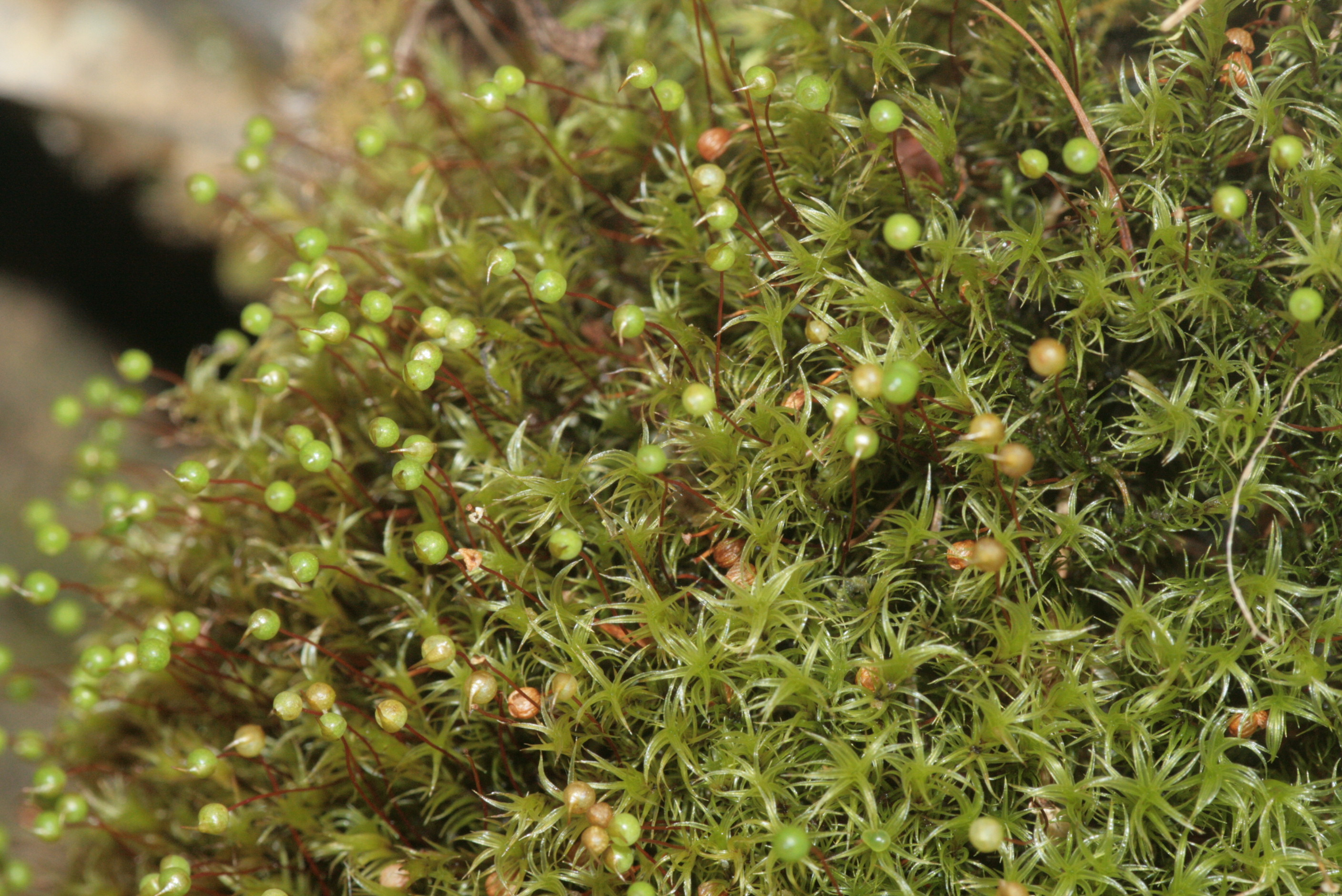 Plagiopus oederianus